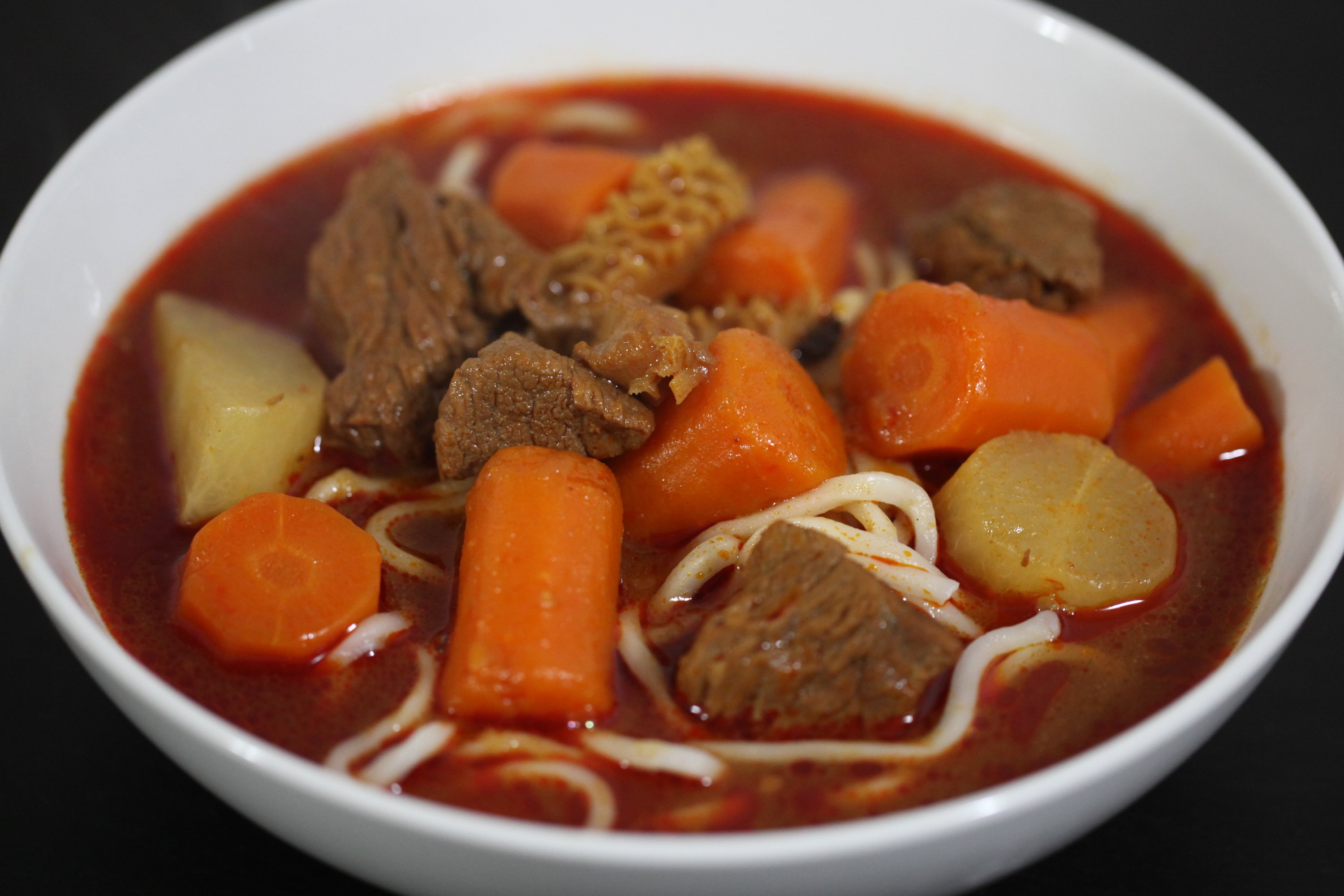 Homemade bo kho (Vietnamese beef stew) with beef, beef tripe, carrot, radish and noodles.